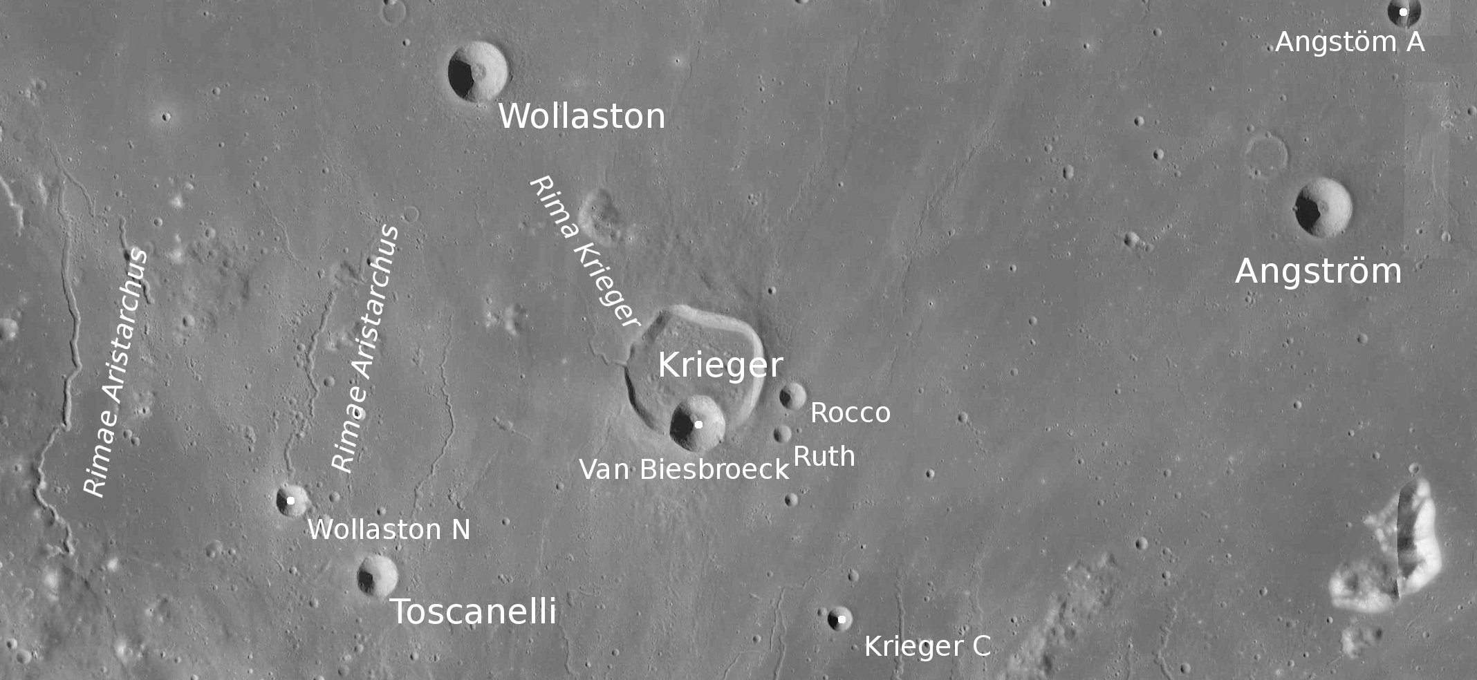 Crater Krieger (detail of LRO - WAC global moon mosaic)